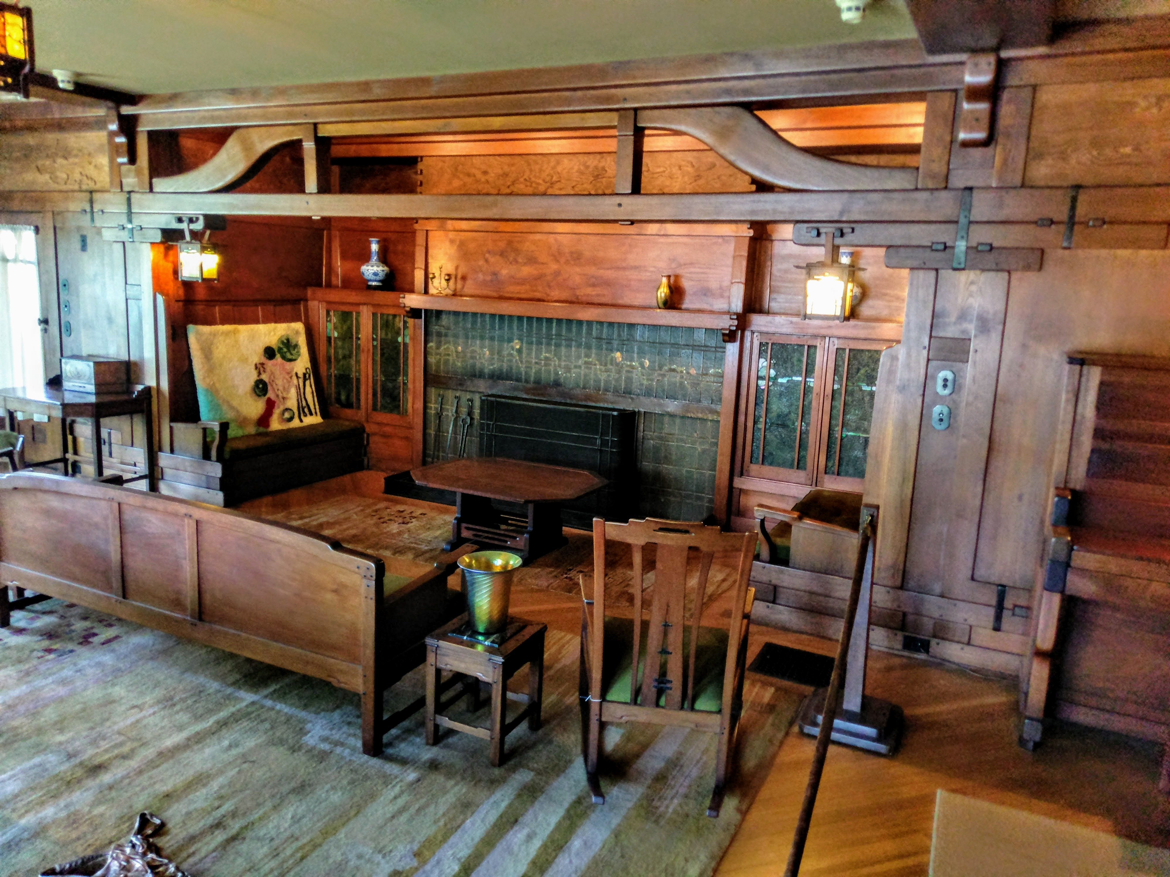 Interior of the Gamble House in Pasadena, California. Photo by Jim Heaphy.